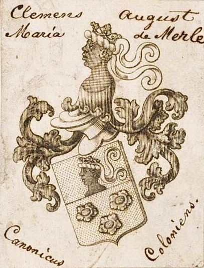 Wappenexlibris des Kölner Weihbischofs Clemens August Maria von Merle (1732-1810)